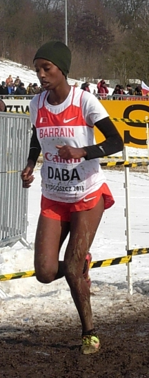 Tejitu Daba at the 2013 IAAF World Cross Country Championships